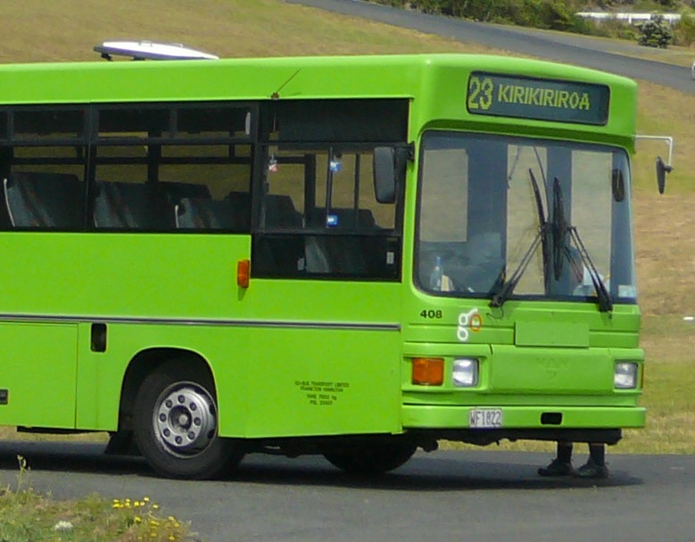 GoBus MAN 11.190 in 2008